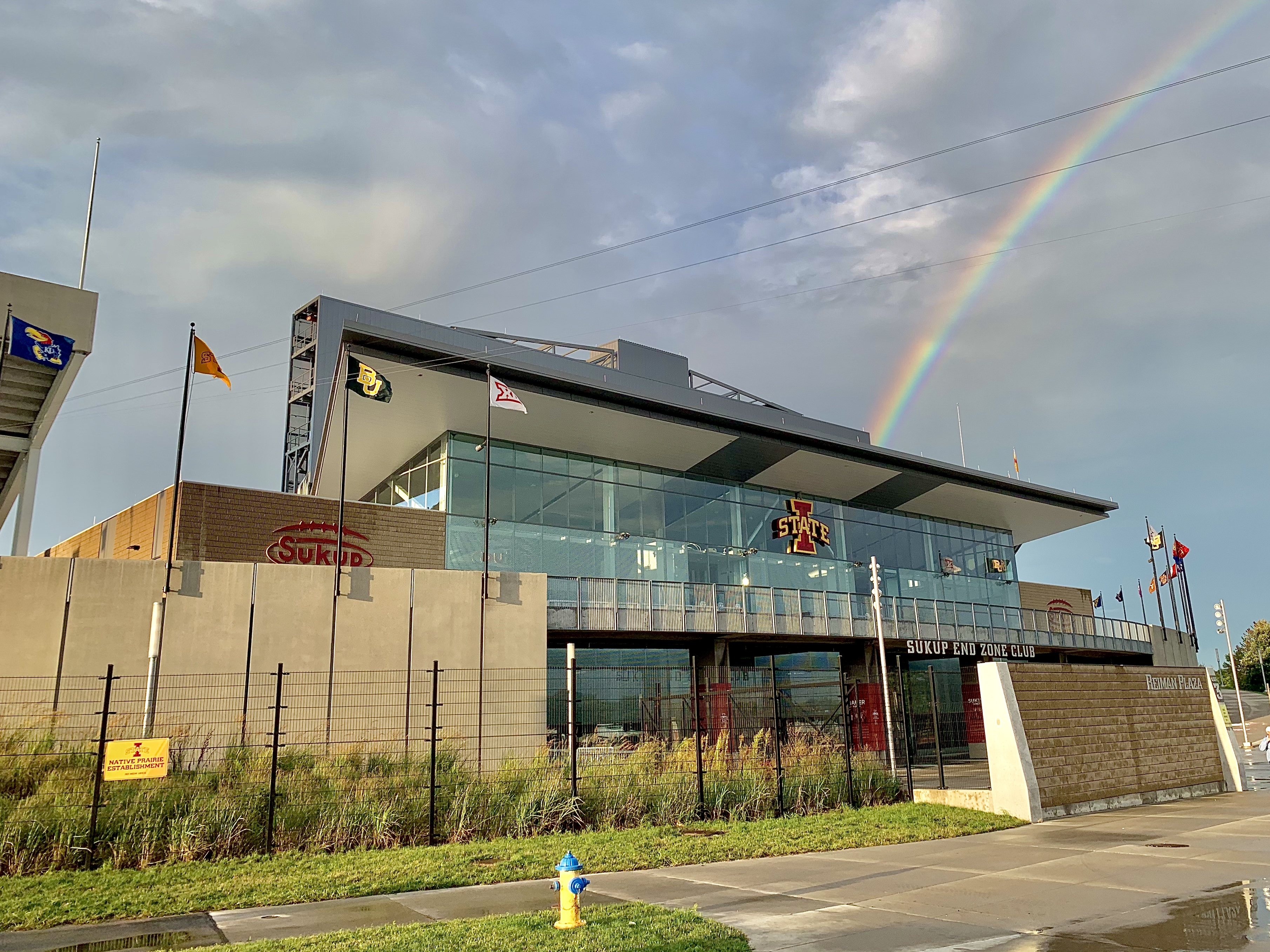 South Endzone of Jack Trice Stadium at Iowa State University in Ames, Iowa.